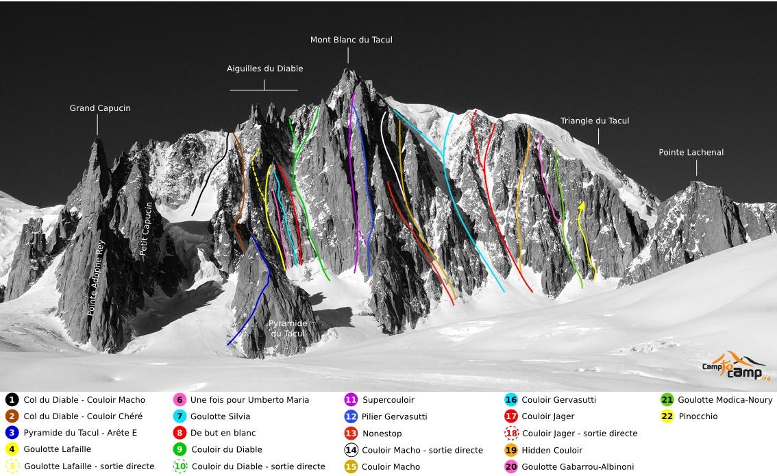 Mont Blanc du Tacul - East face - Routes